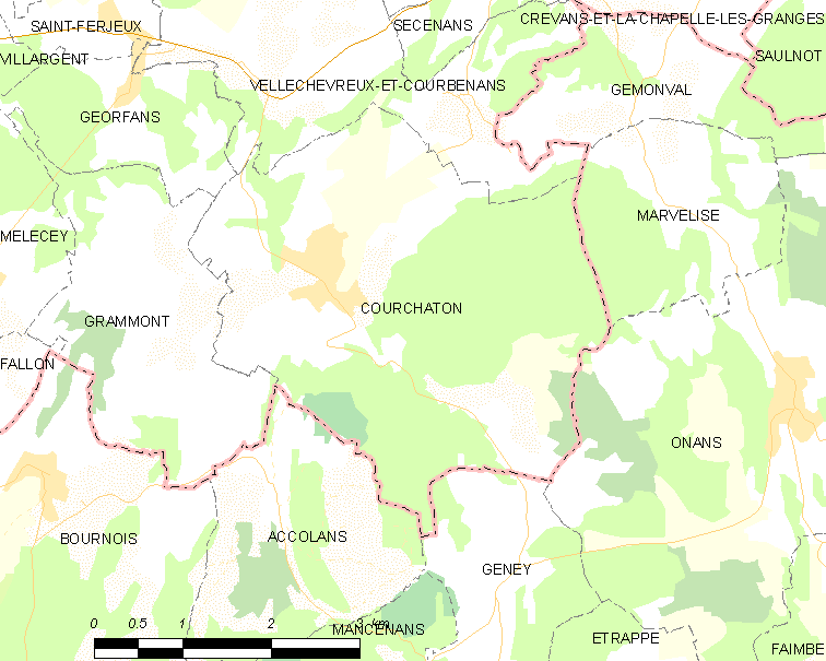 Map of French municipality